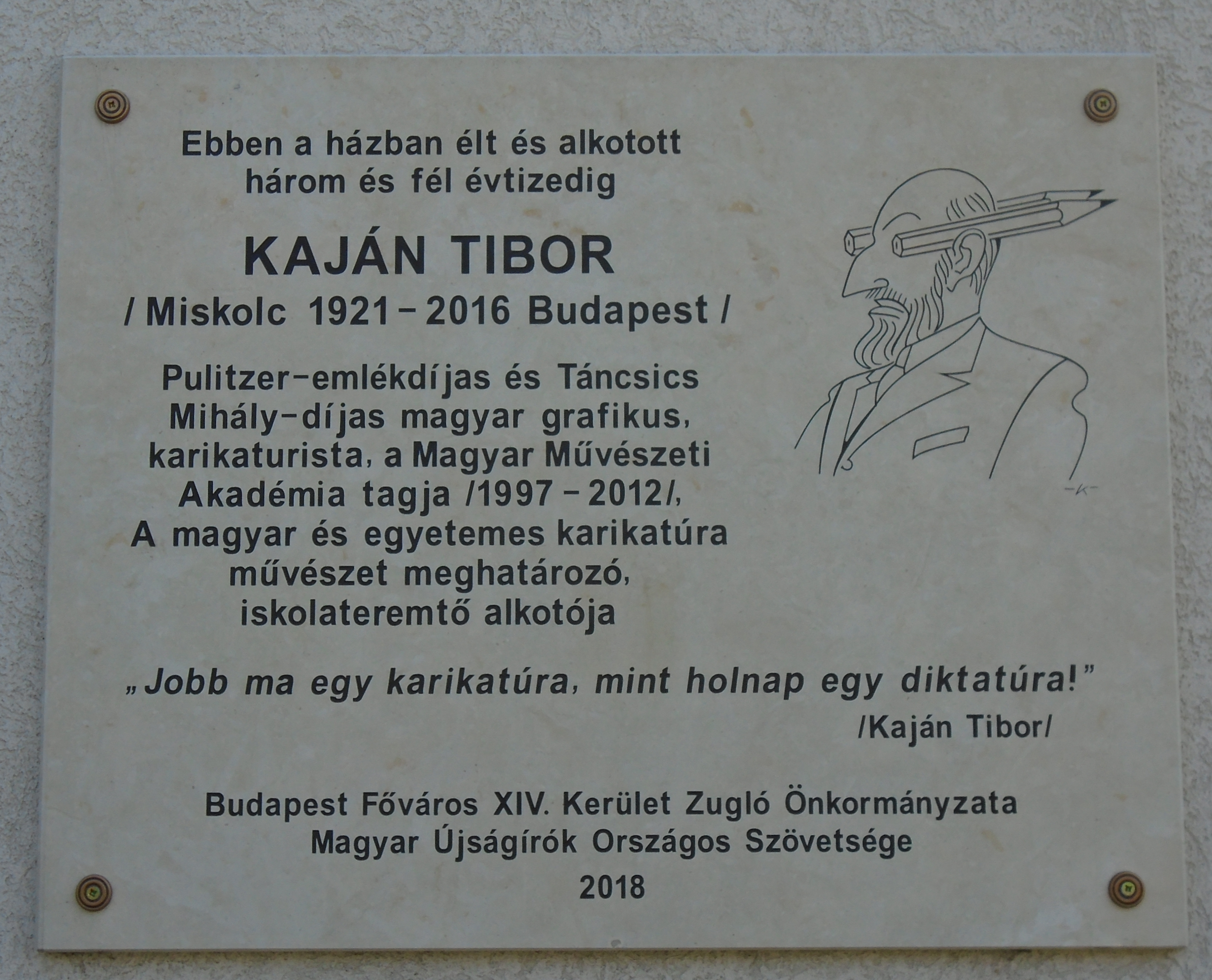 Tibor Kaján's commemorative plaque in Budapest District XIV.